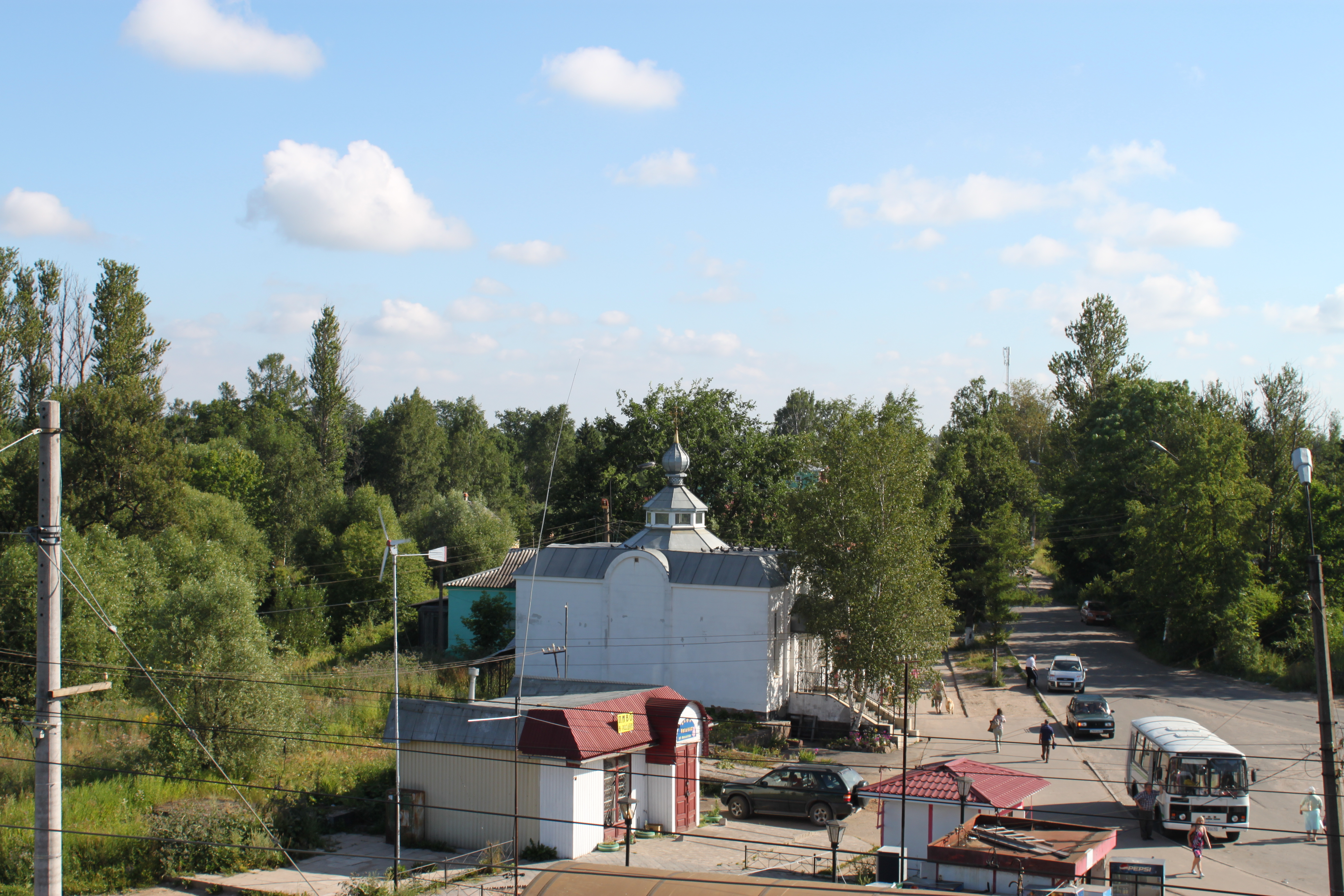 settlement in Leningrad Oblast